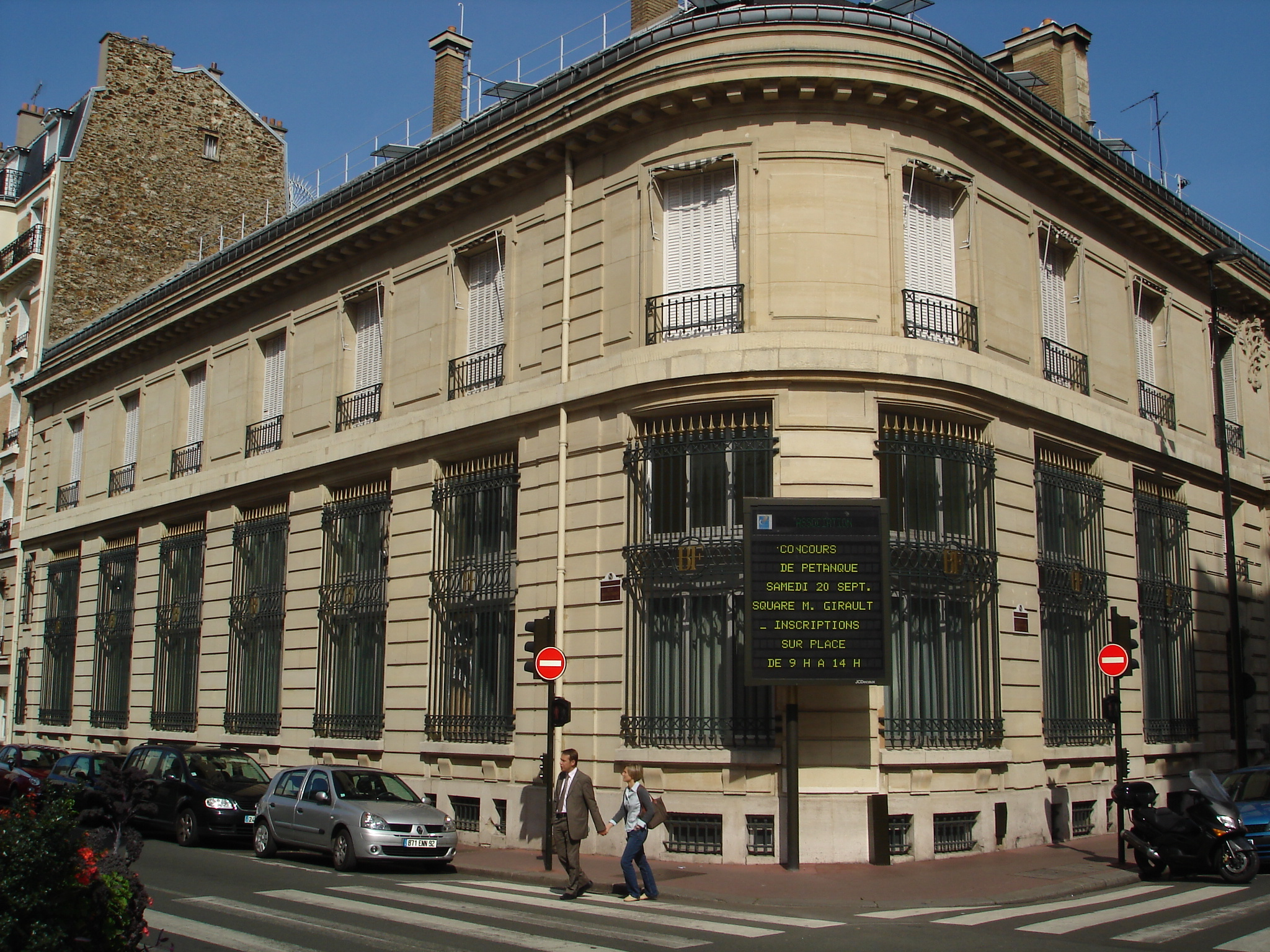 Old building of the Banque de France, built in 1899,located rue Anatole-France at Levallois-Perret, suburb of Paris (France)